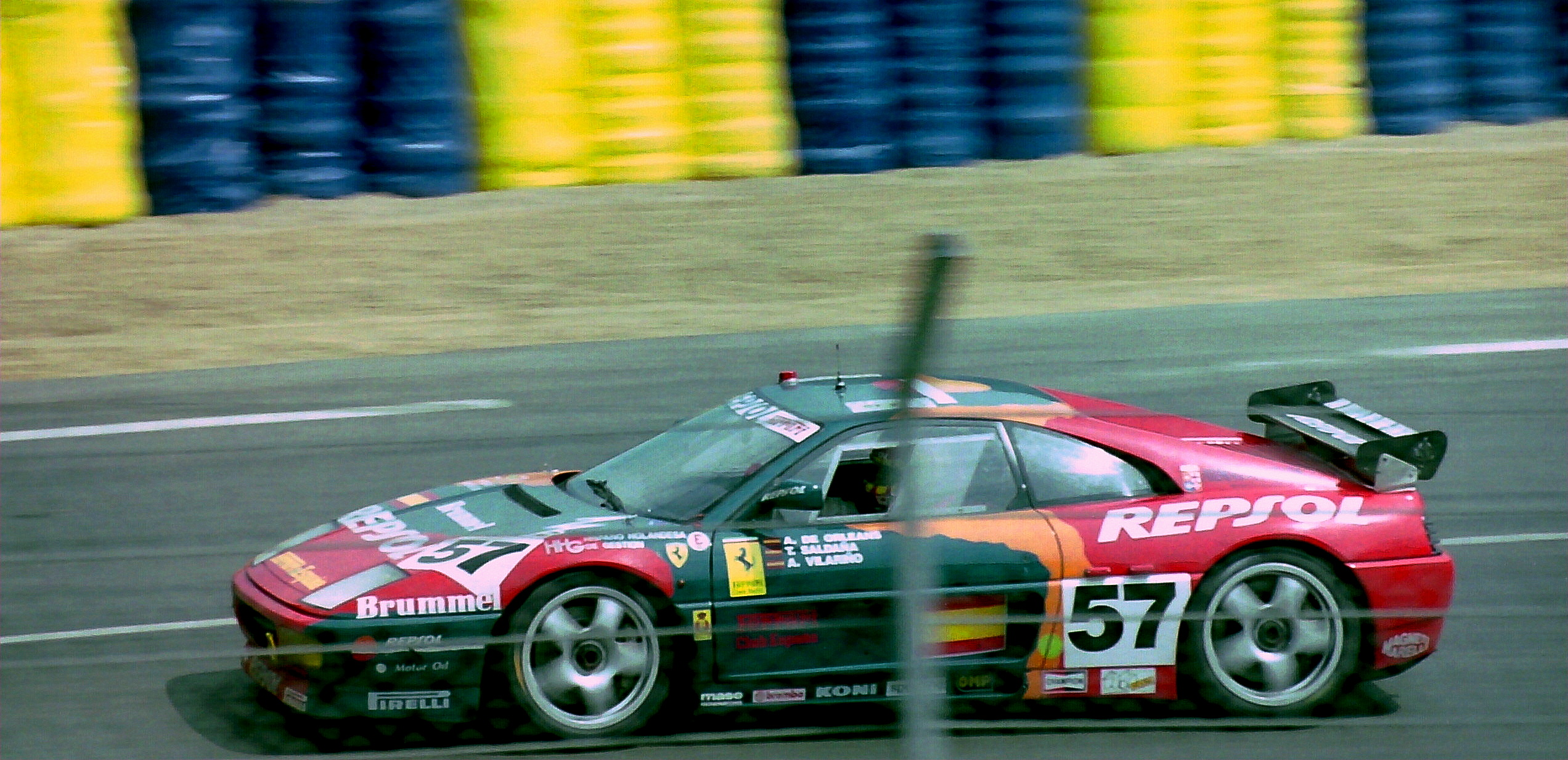 Ferrari 348 GTC-LM - Tomas Saldaria, Alfonso de Orleans & Andres Vilarino at the 1994 Le Mans